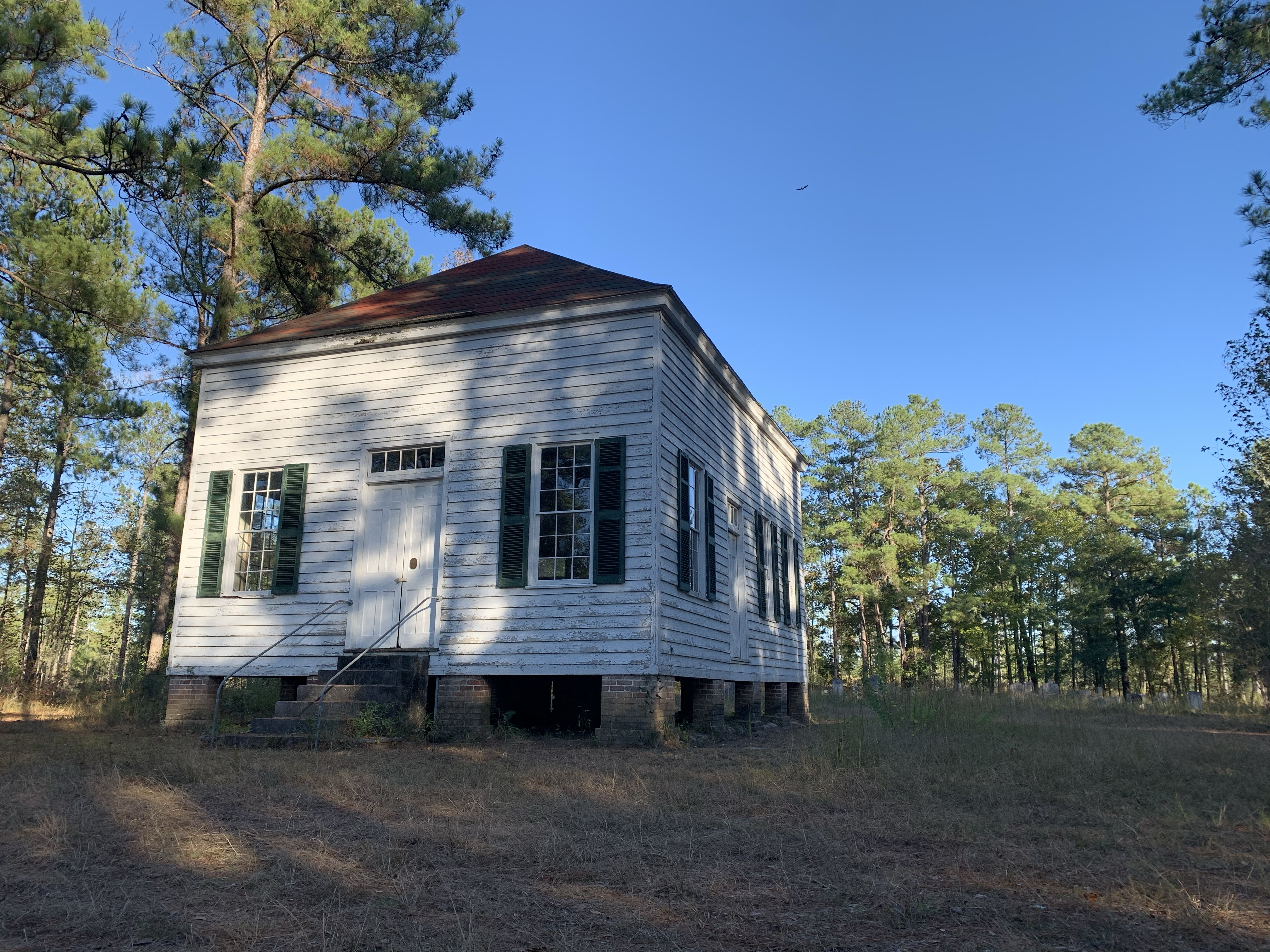 The Church in 2019